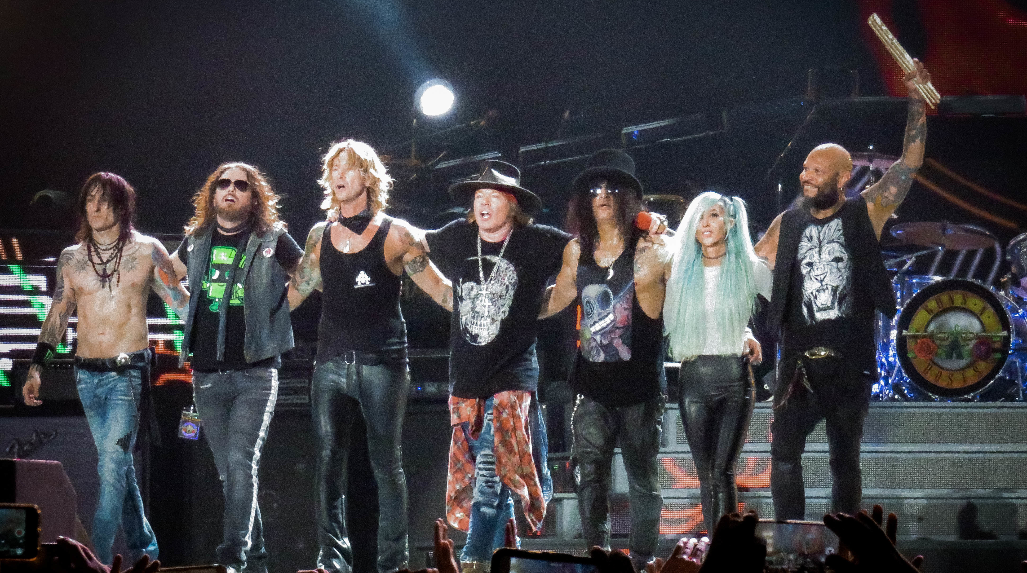 Guns n´Roses Palacio de los Deportes 30/11/2016